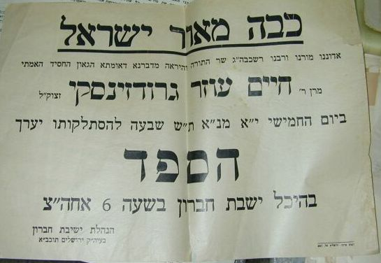 Eulogy of Rabbi CHaim Ozer